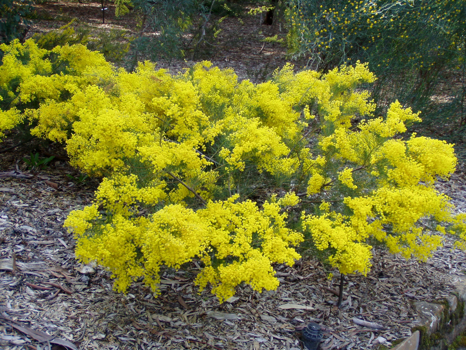 Description: Acacia meiantha Location: Australian National Botanic Gardens, Canberra, Australian Capital Territory, Australia Date: 2005-09-21 Source: picture taken by Danielle Langlois Licence: Released under GFDL and Creative Commons licenses by the photographer